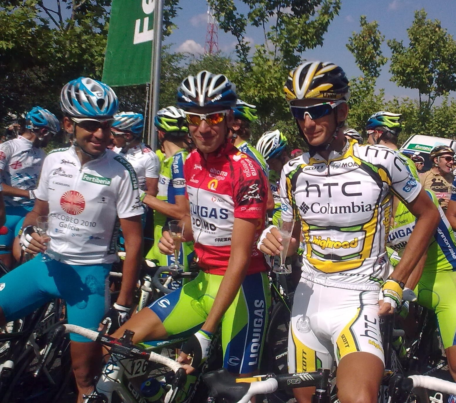 Ezequiel Mosquera, Vincenzo Nibali and Peter Velits in the Vuelta a España 2010.